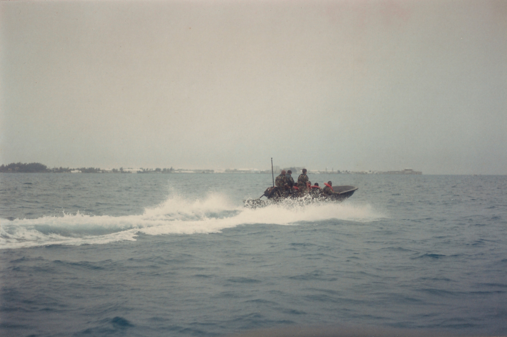 A Rigid Raider motorboat of the Royal Bermuda Regiment carries soldiers across Grassy Bay (the former anchorage for the North America and West Indies Station of the Royal Navy, as they exit the Great Sound in 1996. In the background is the Royal Naval Dockyard on Ireland Island, with the Commissioner's House visible atop the Keep (now home to the Bermuda Maritime Museum) at far right. Photographed by Seán Pòl Ó Creachmhaoil.